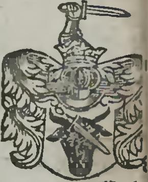 Pomian сoat of arms from Kronika polska